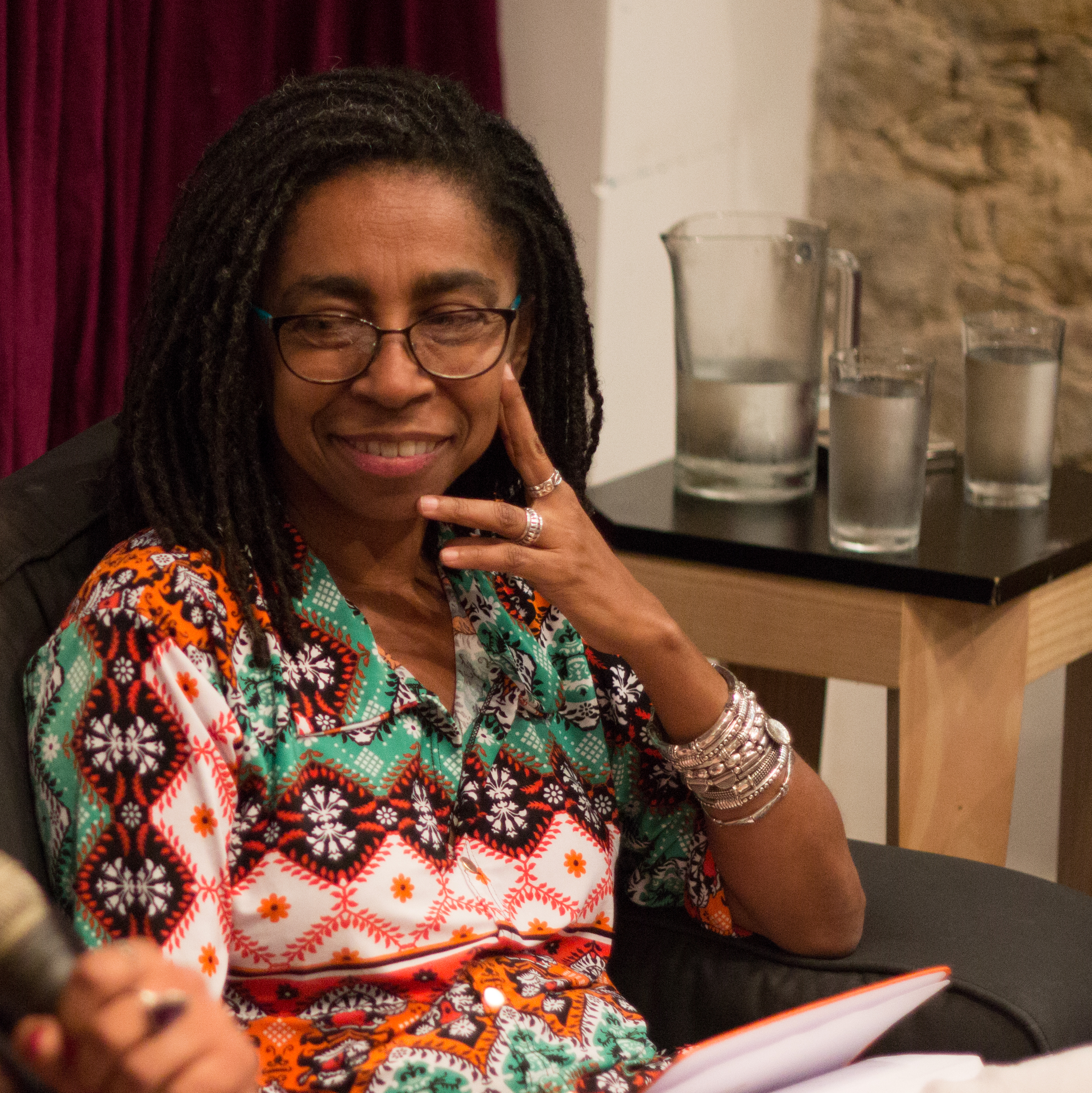 Jurema Werneck to the right